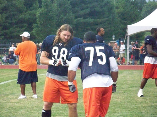 Dusty Dvoracek and Matt Toeaina (75) practice during the Chicago Bears training camp